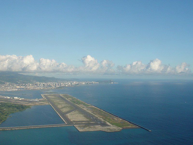 Photo of the Reef Runway (08R/26L) at Honolulu International Airport in Hawaii.